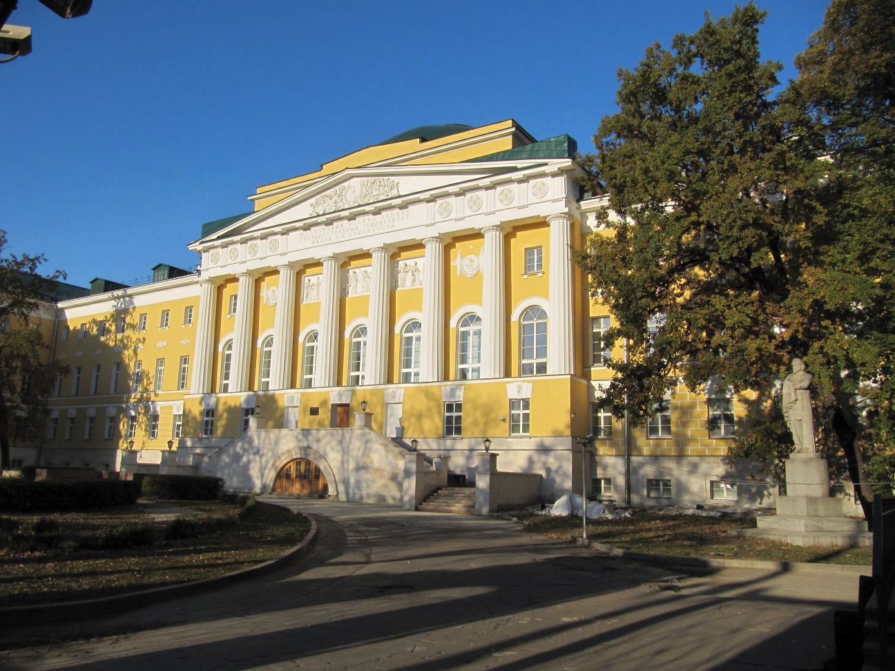 Lomonosov Moscow State University. The so-called "Old Building" was built in 1793 and rebuilt in 1819. Architects - Matvey Kazakov, Domenico Gilardi, Afanasy Grigoriev. Today - The Institute of Asian and African Studies.